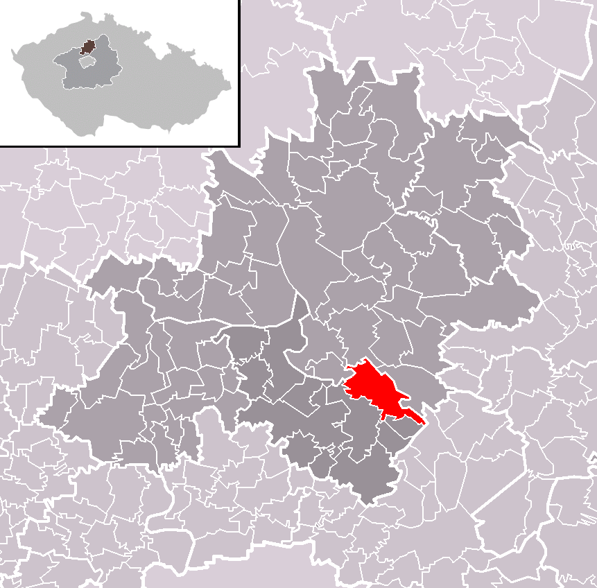 Location of Všetaty municipality within Mělník District and administrative area of Neratovice as a Municipality with Extended Competence.